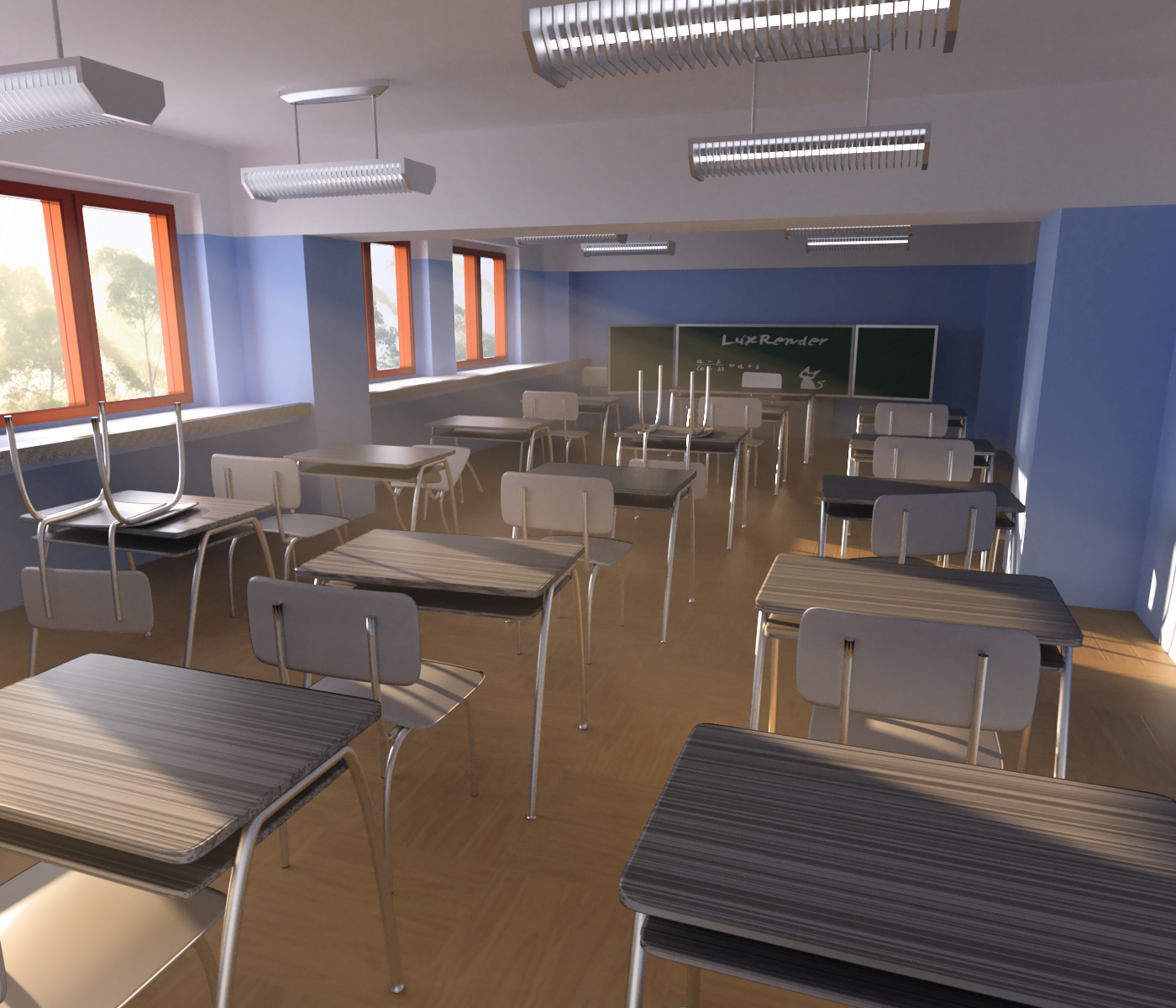 Rendering of a school interior with LuxRender. Modelled in Blender. This Rendering uses global illumination and volumetric fog. Rendering required 20,000 samples per pixel to reduce noise. Rendering time on on a dual quadcore presumably would have taken about a week. Thanks to all those who participated in and contributed to the rendering process (Asmodai, Datahell, Don-kun, Rbrausse, StG1990, ...).